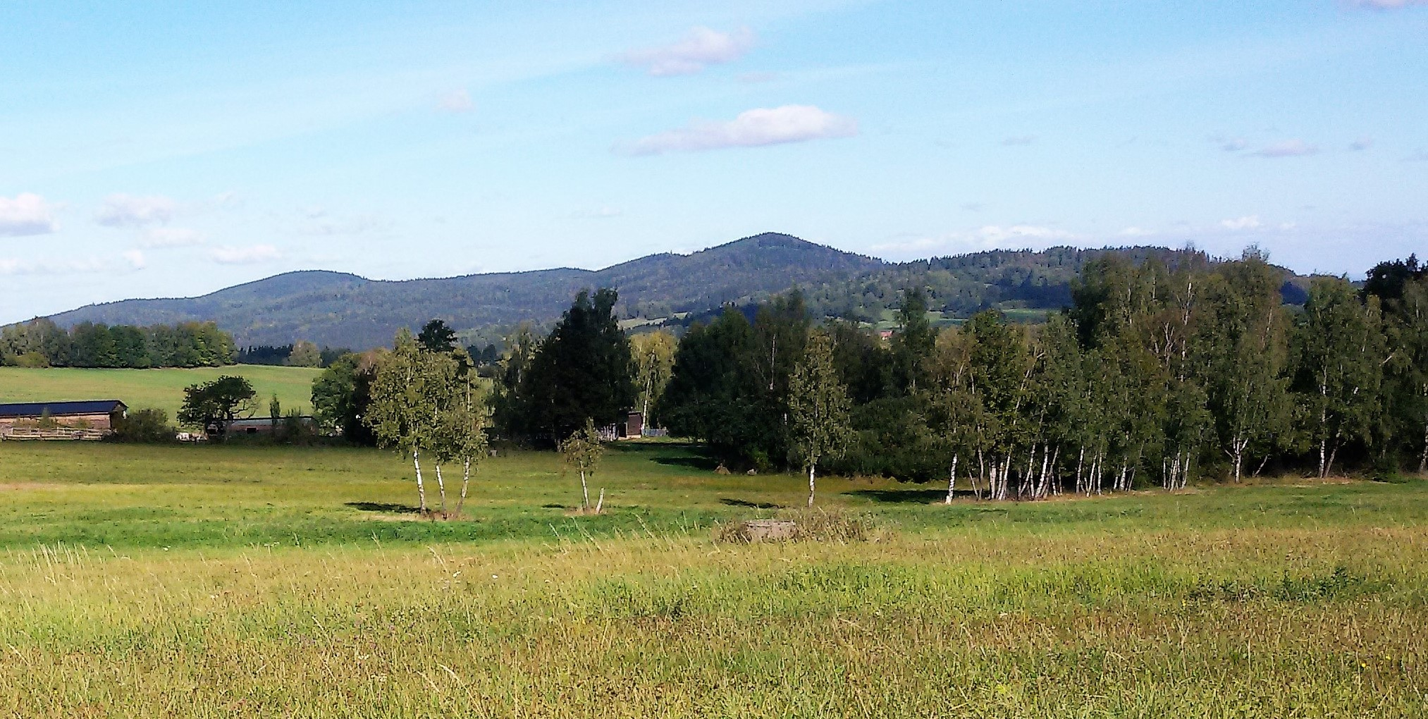 Slepičí hory (Hen mountains) as seen from the south. Český Krumlov District, South Bohemian Region, Czechia.